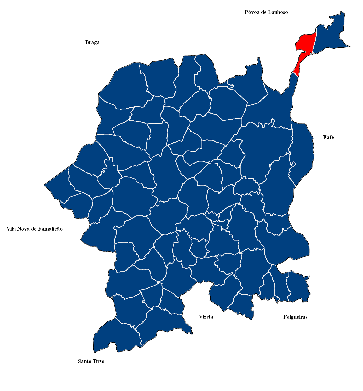 Map of Arosa parish, Guimarães Municipality, Portugal